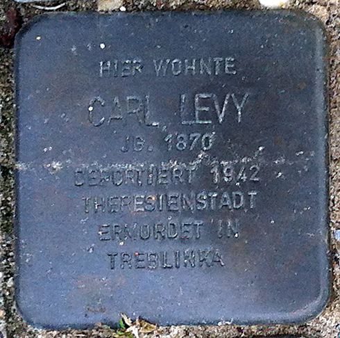 Stolperstein - Stumbling Stone in Nettetal, NRW, Germany Carl Levy